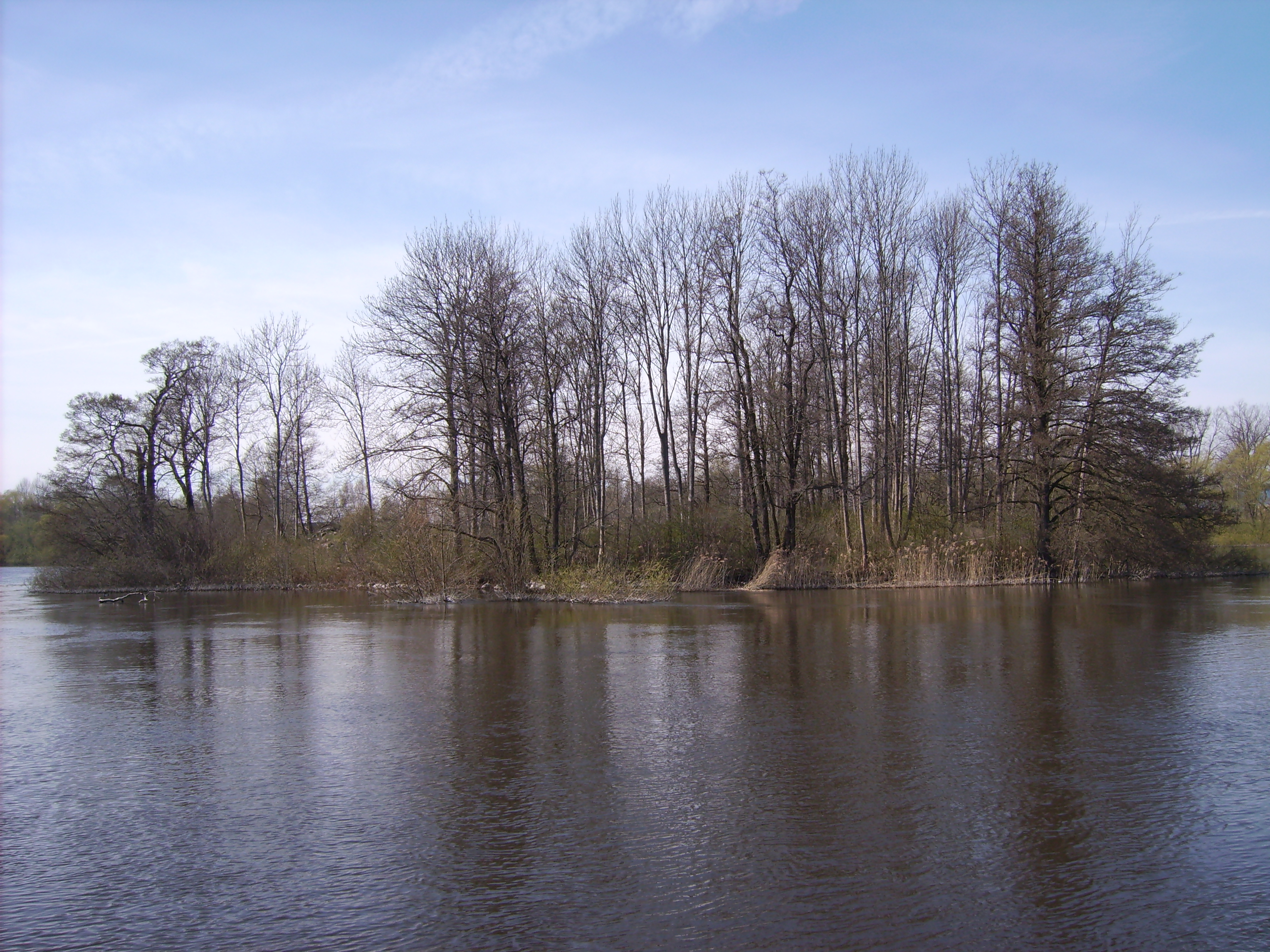 Photo by Harri Blomberg.